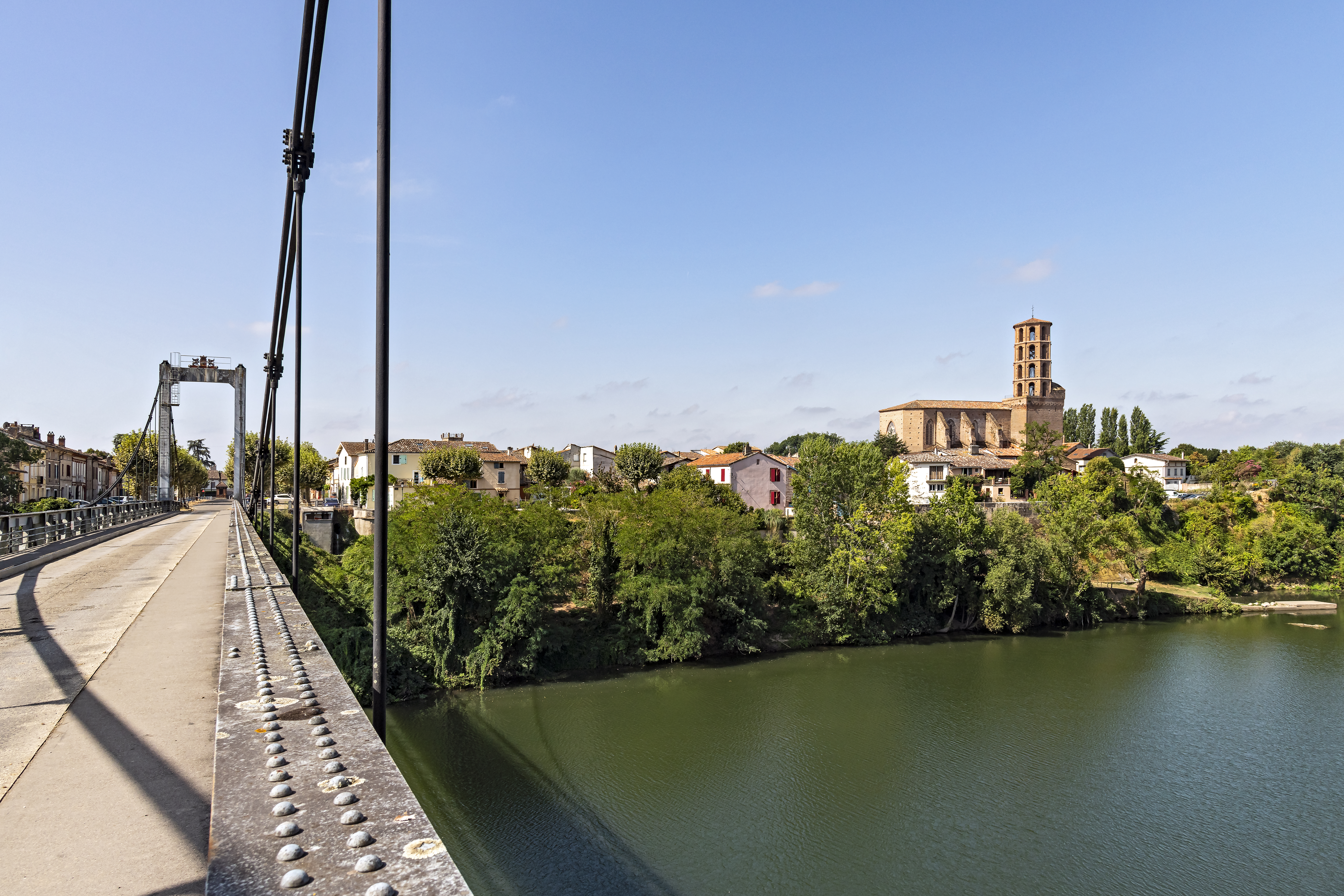 Buzet-sur-Tarn, Haute-Garonne France - Seen from the right bank of the Tarn river